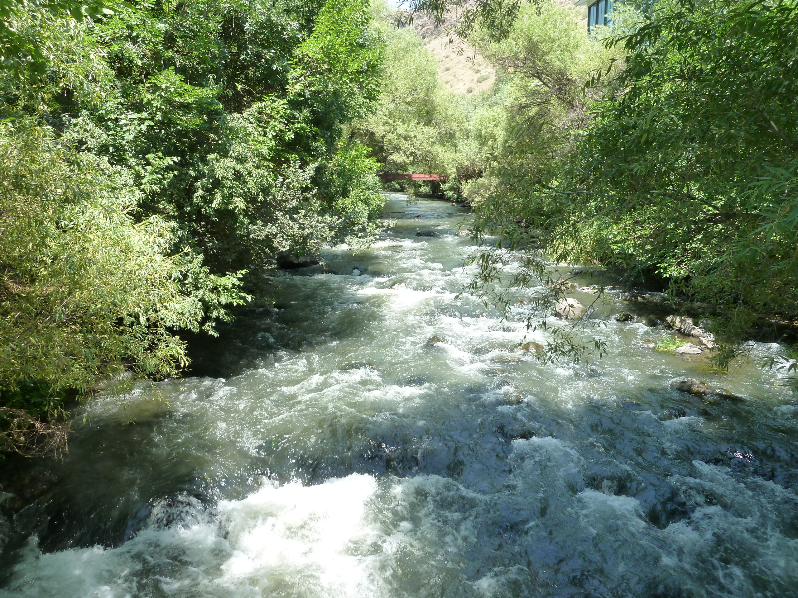 Kasakh river in Ashtarak